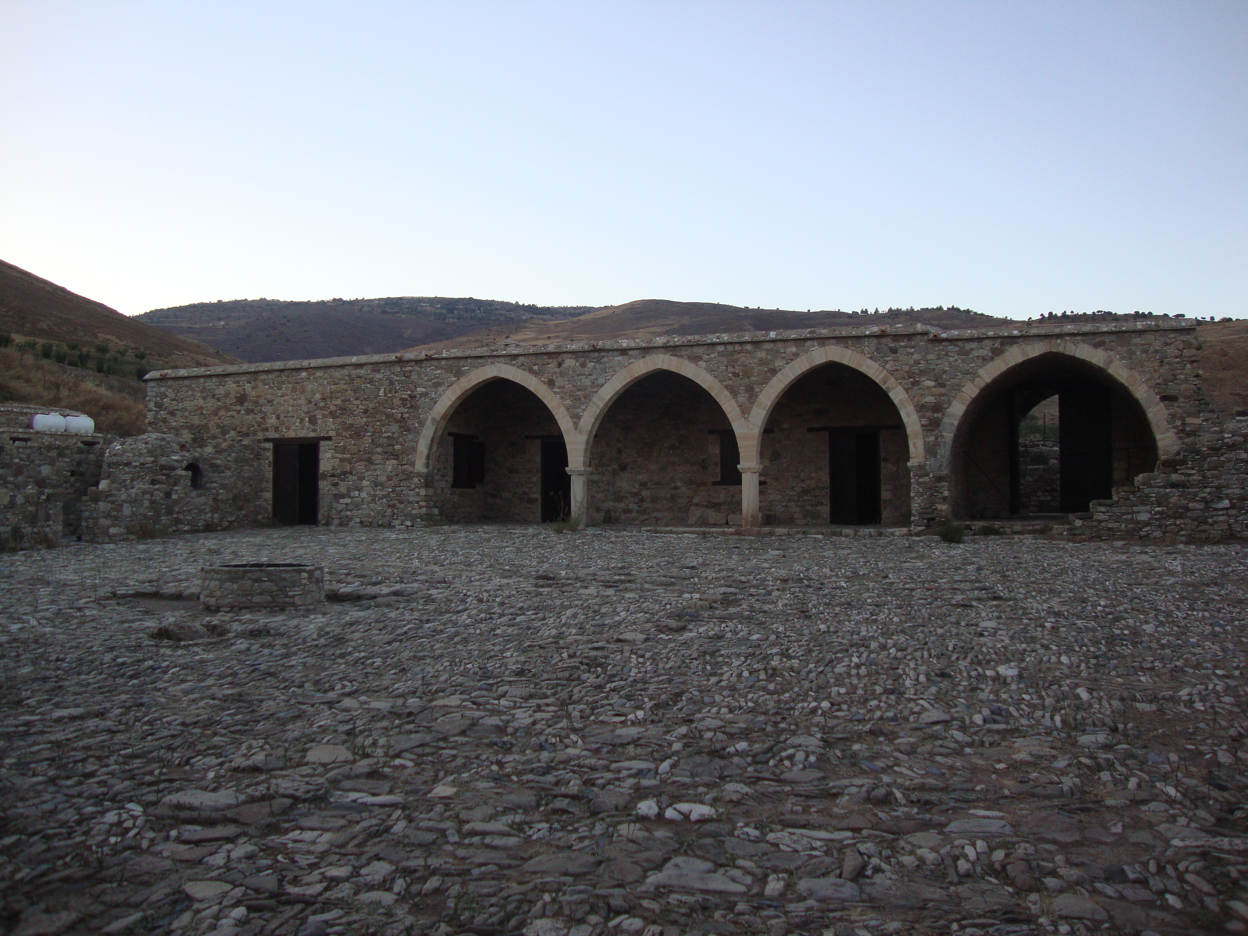 Panagia tou Sinti Monastery.09.2013